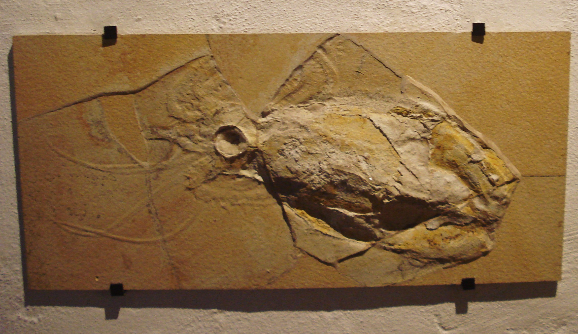 fossil of Trachyteuthis hastiformis